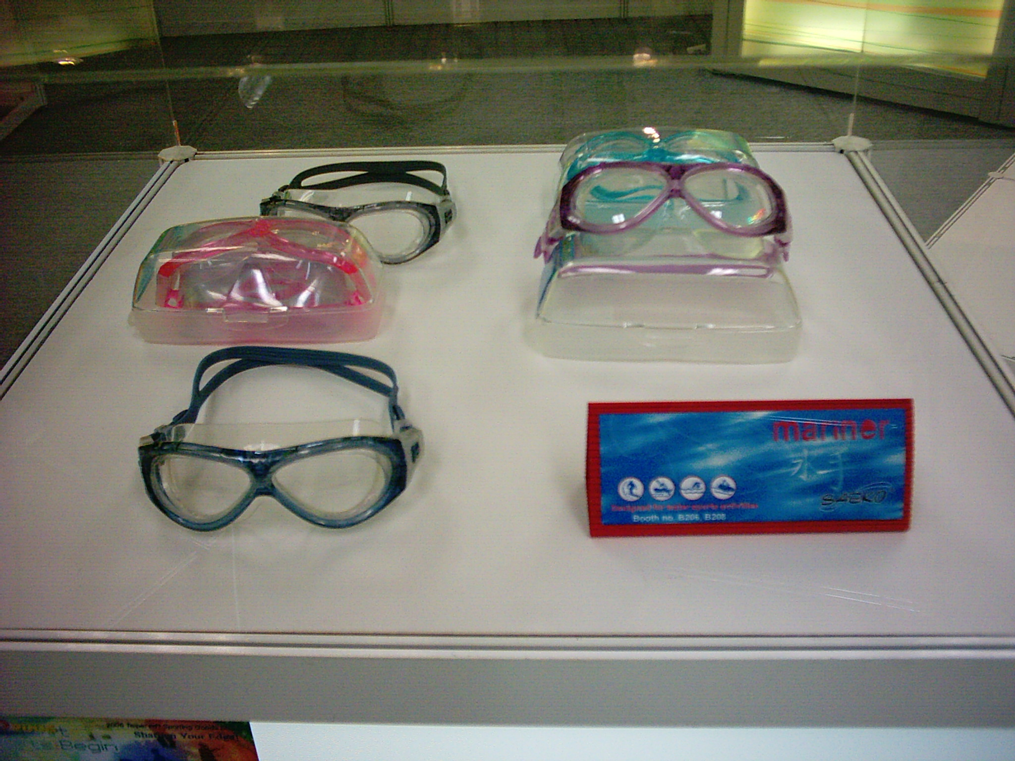 IST Sports Corp. water masks @ TaiSPO 2006 Inno-Stage Area.